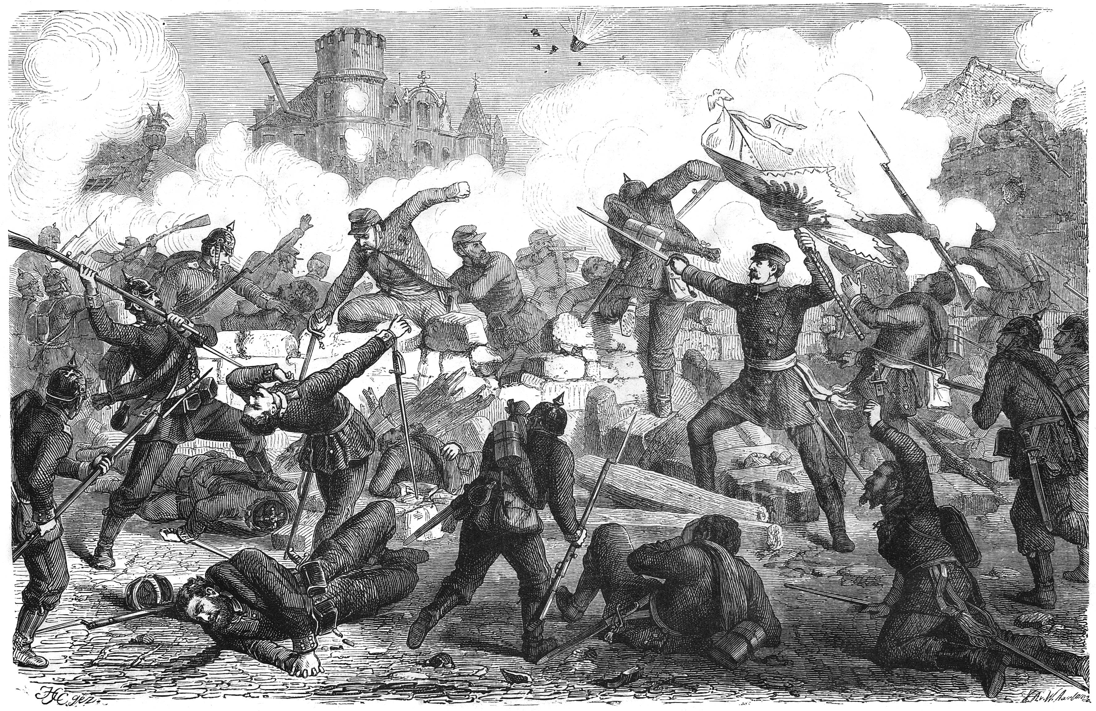 caption: "General von Budritzki nimmt, mit der Fahne in der Hand, die Barricade vor le Bourget. Originalzeichnung von unserem Feldmaler F. W. Heine."